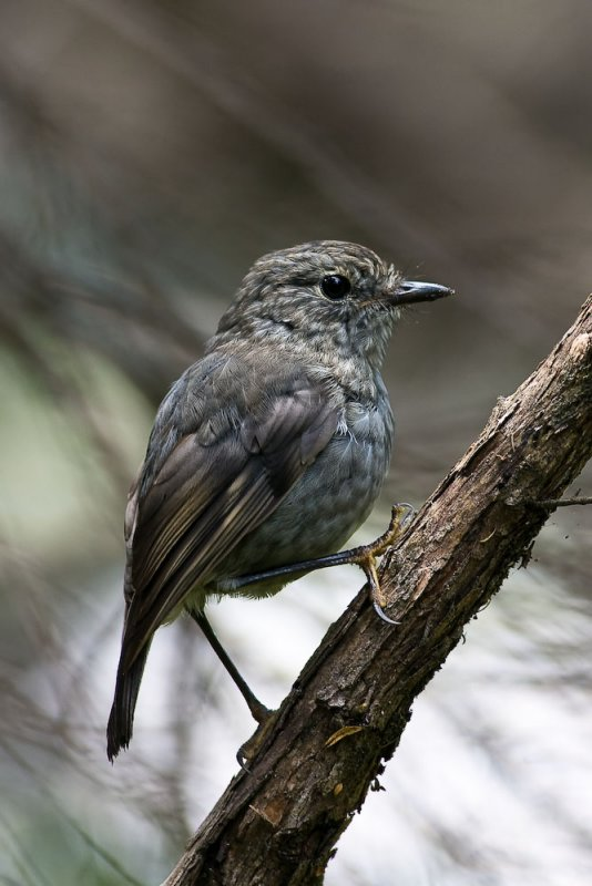 Petroica australis The very friendly New Zealand Robin which are so tame they almost come to hand.